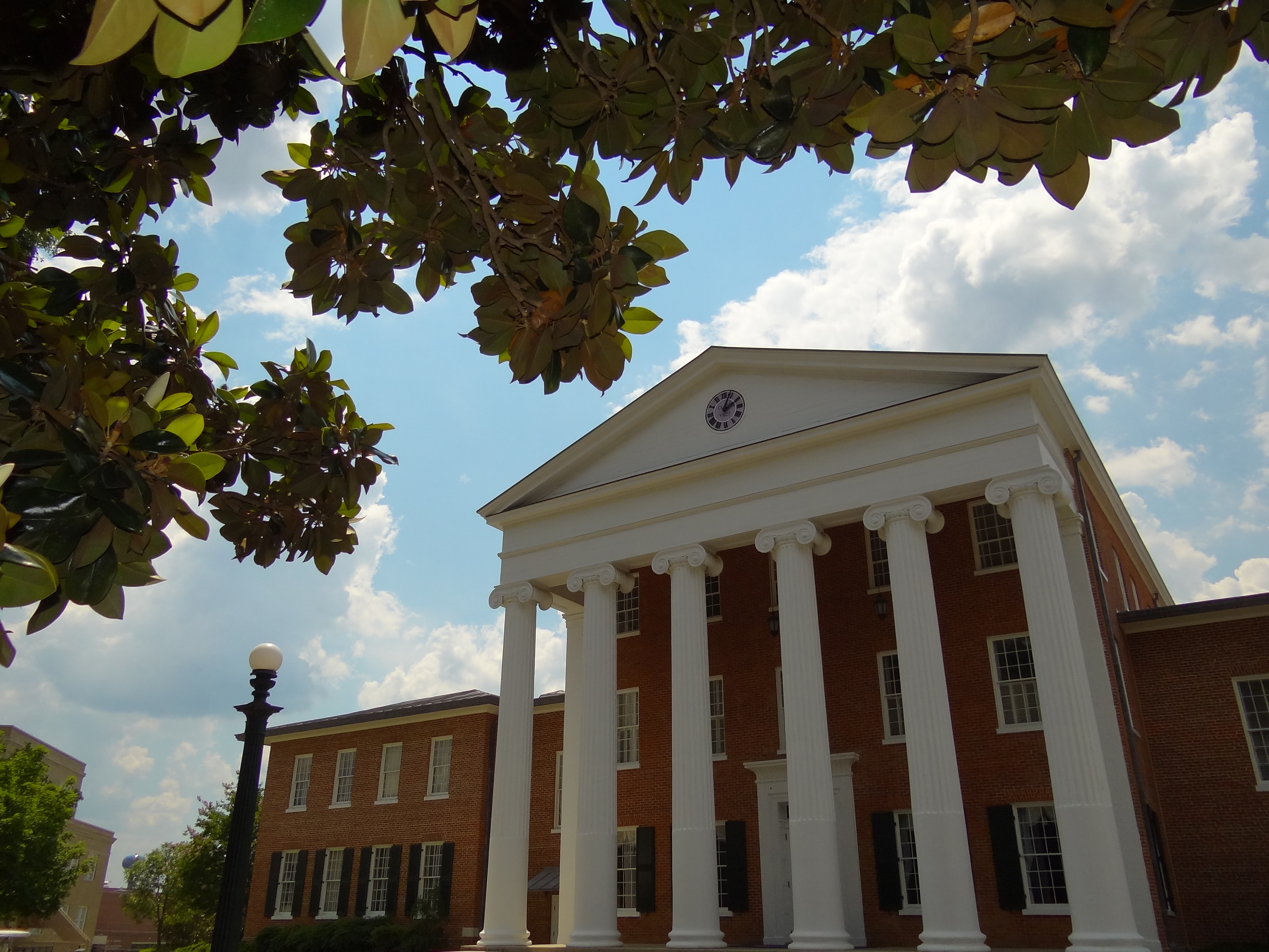 Facade of Lyceum Building - University of Mississippi - Oxford - Mississippi - USA - 02